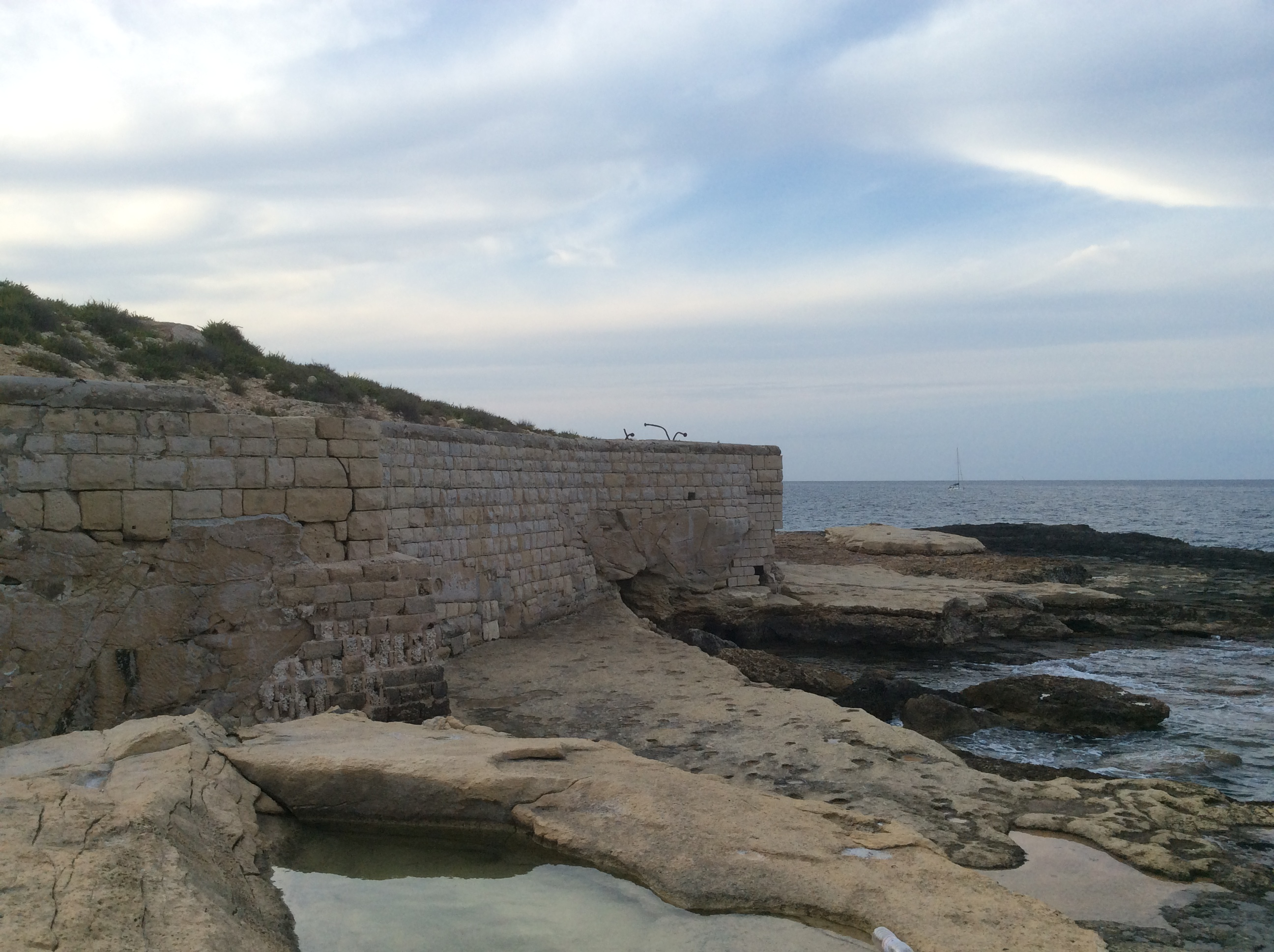 Ditch - Fort Tigné This media is about Maltese cultural property with inventory number 01354.